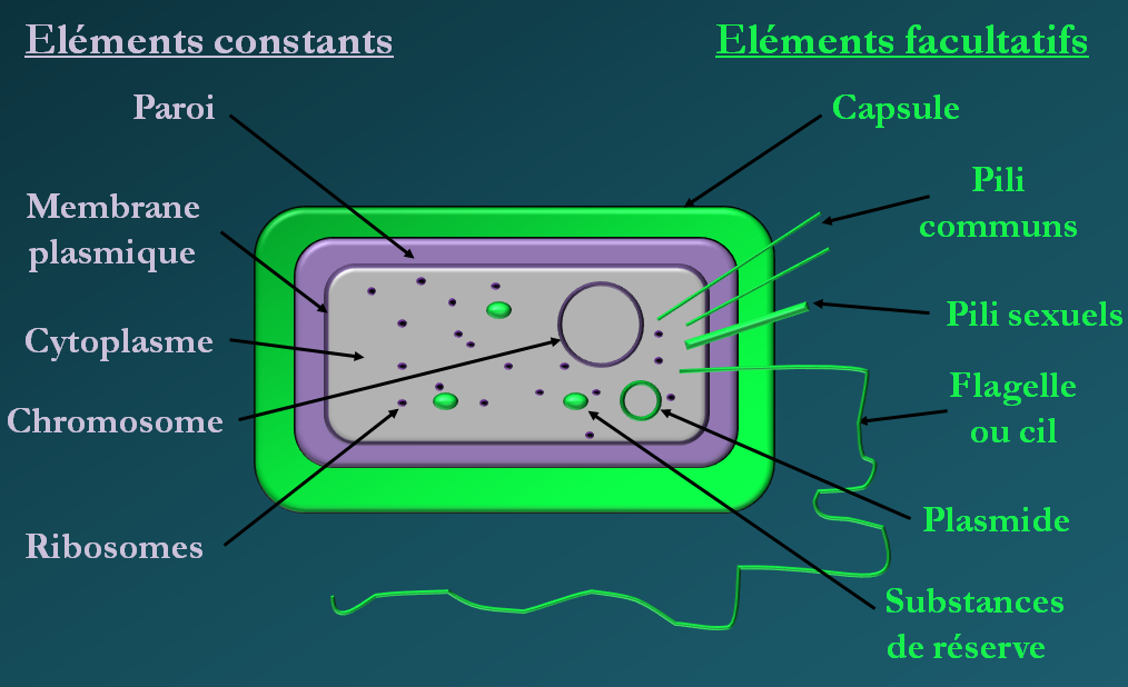 bacterial cell